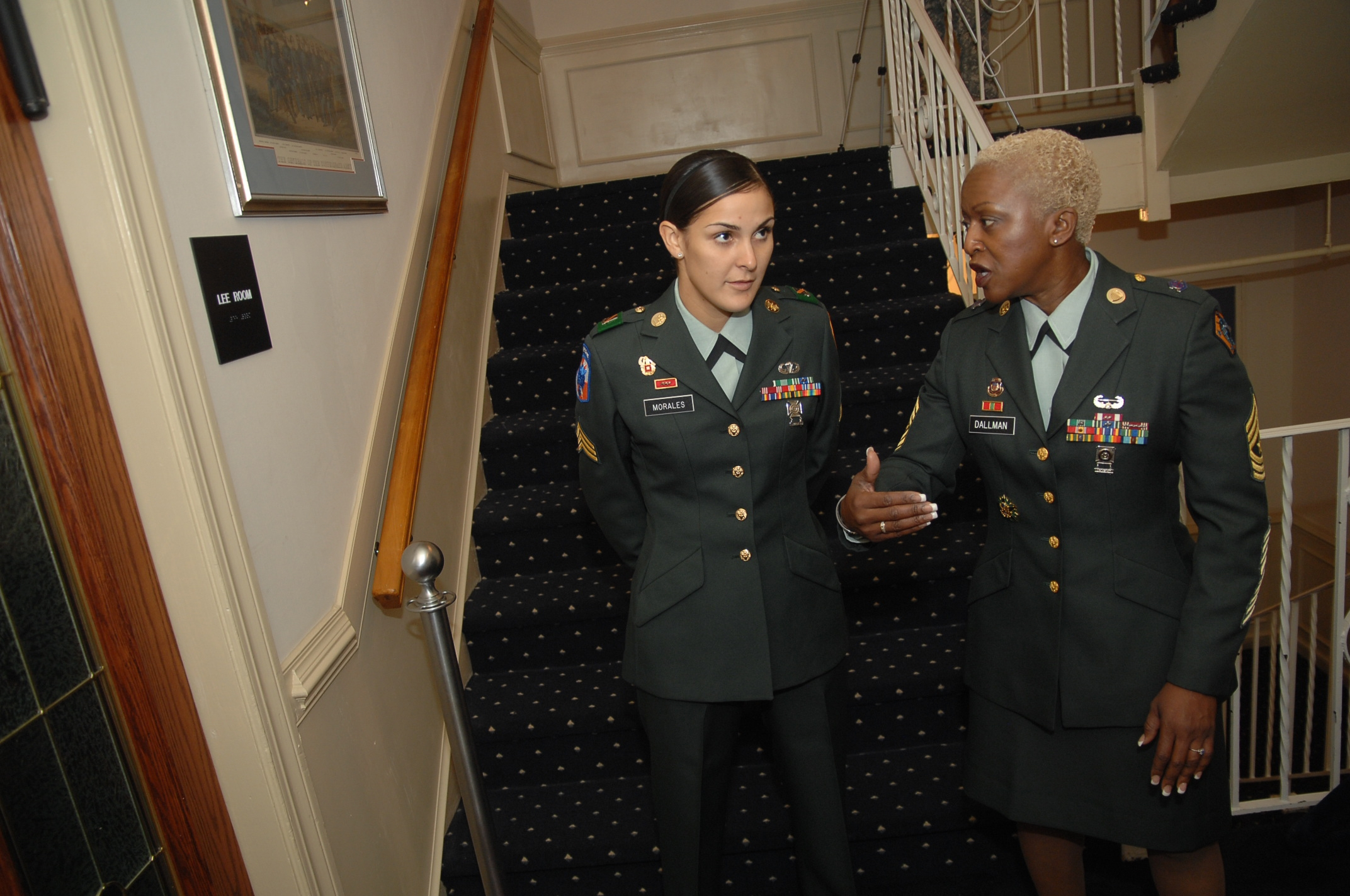 Sgt. Lisa Morales of the U.S. Army Forces Command awaits her turn prior to the board appearance event during the 2008 Department of the Army Noncommissioned Officer and Soldier of the Year "Best Warrior" Competition held Sept. 29 at Fort Lee, Va.